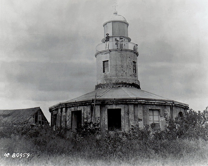 The Corregidor Island Lighthouse in 1899 during the Philippine-American War. The second oldest lighthouse in the Philippines, it was first lit on February 1, 1853. It was destroyed in WW II.